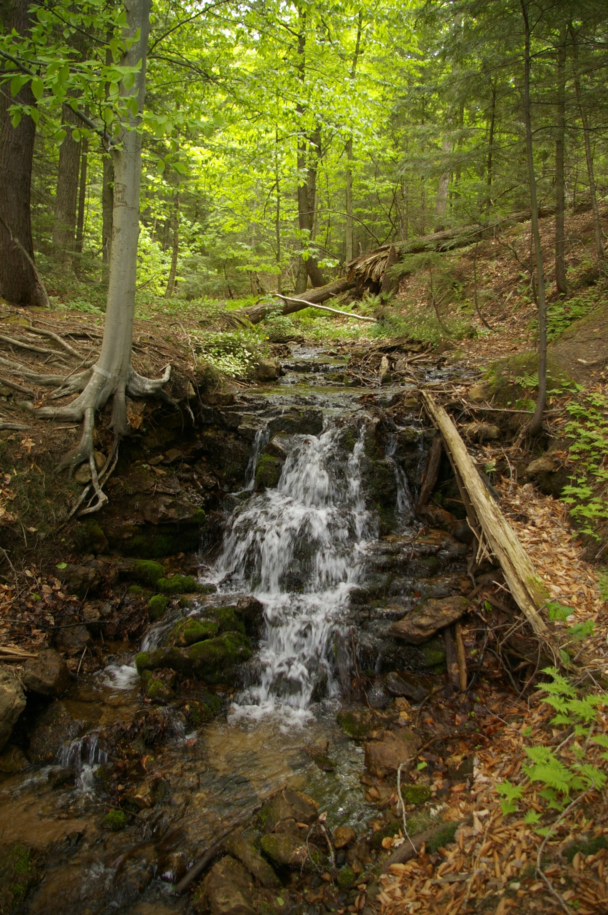 Upper portion of Alger Falls near Munising Michigan.